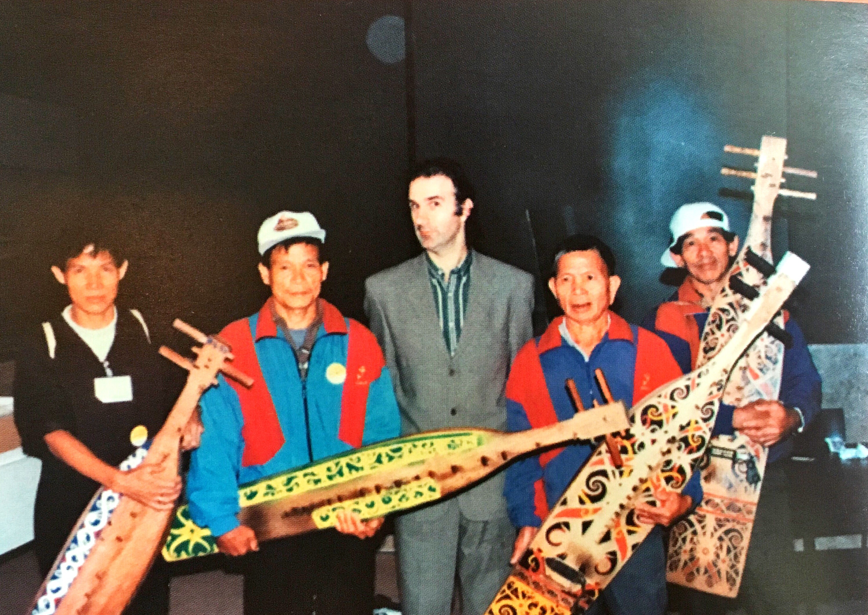 Sarawak Sape performers who came from Belaga to perform at the World Music Exhibition at Marseilles, France.